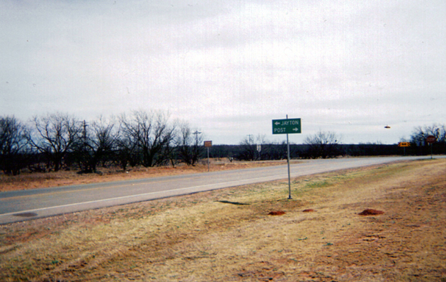 Texas Highway 208 intersection with US Hwy. 380. Photo by Danny Burton, 05/15/06.